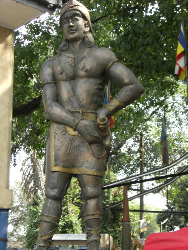 Prince Tikiri Or King Rajasinghe සිංහල: ටිකිරි කුමාරයා නොහොත් රාජසිංහ රජතුමා